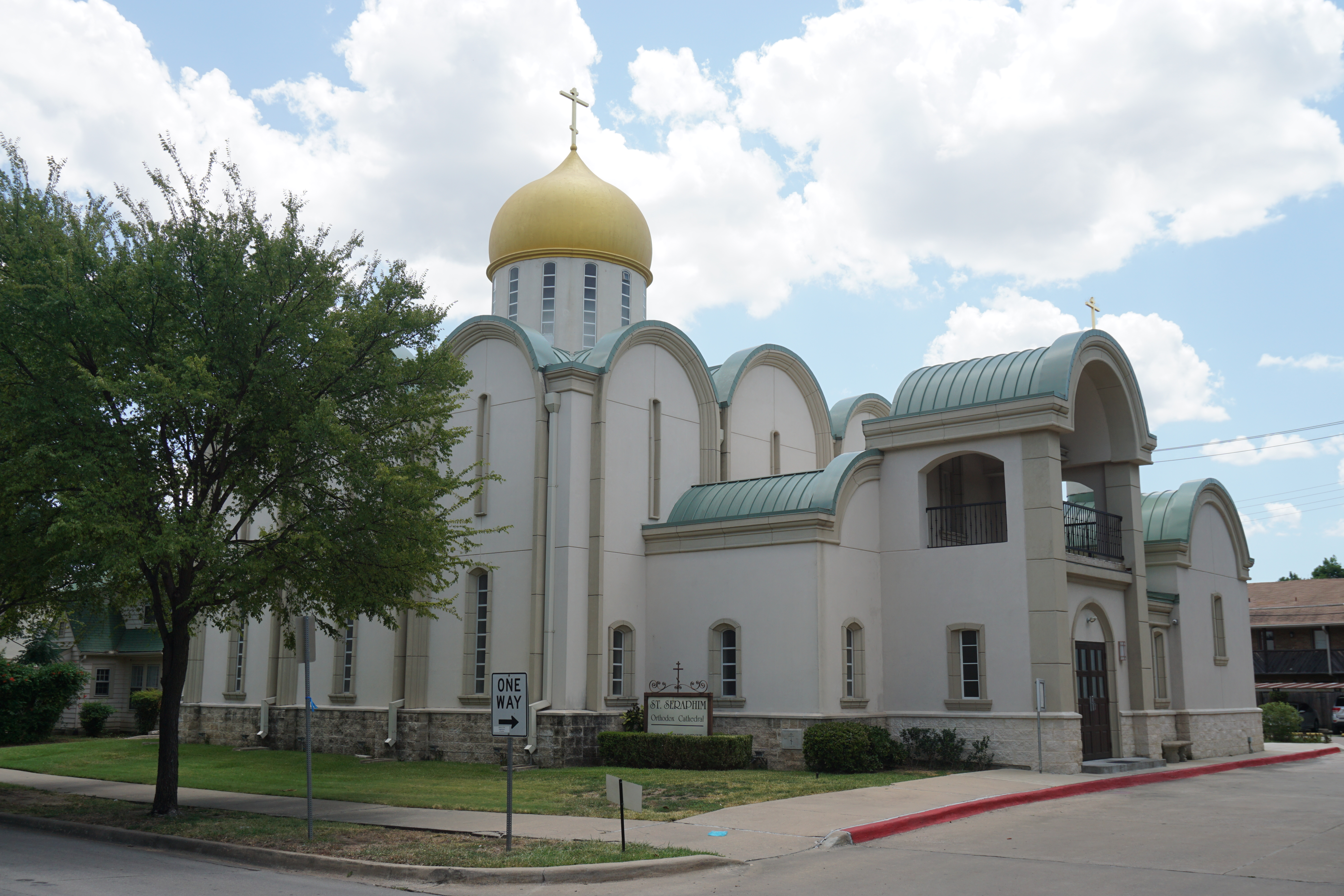 St. Seraphim Orthodox Cathedral in Highland Park, Texas (United States).